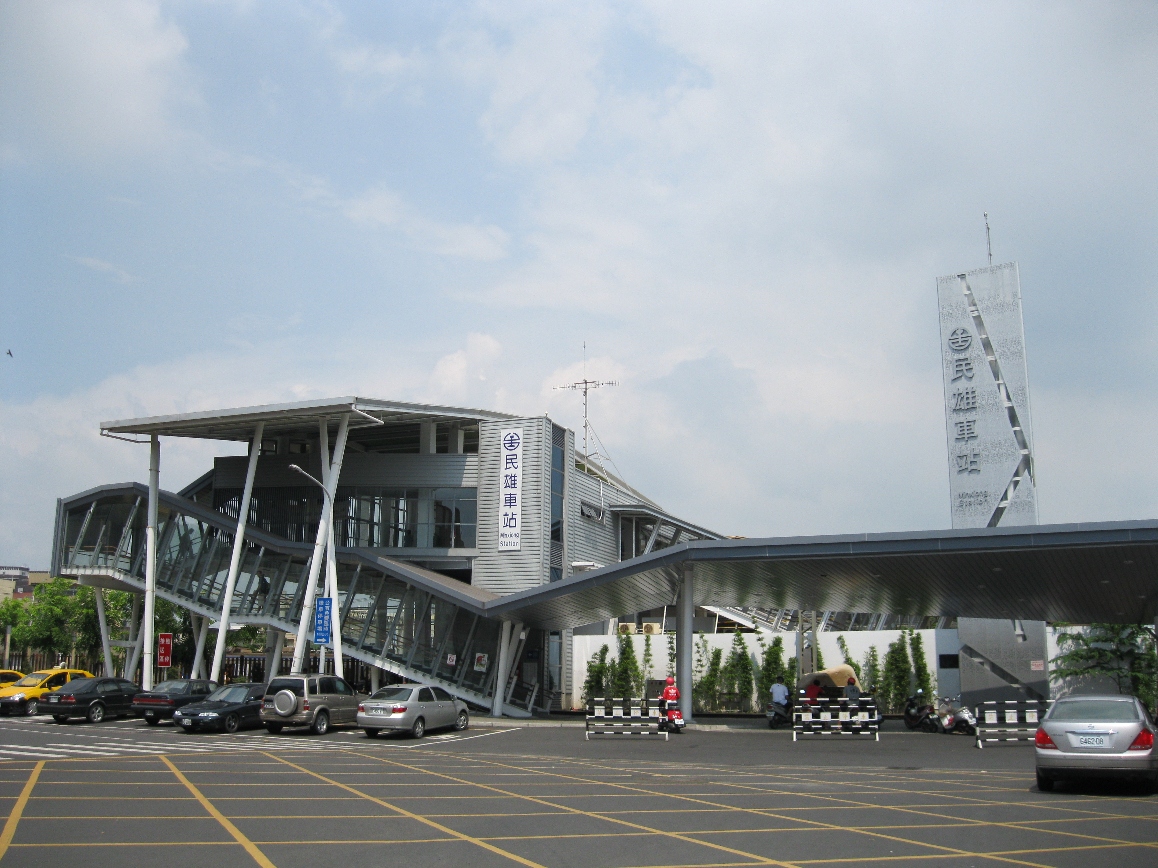 TRA Minsyong Station new station building, located at MinSyong Township, ChiaYi County, Taiwan, has been finished at Oct 23, 2009 and ceremonially opened at Jan 12, 2010.